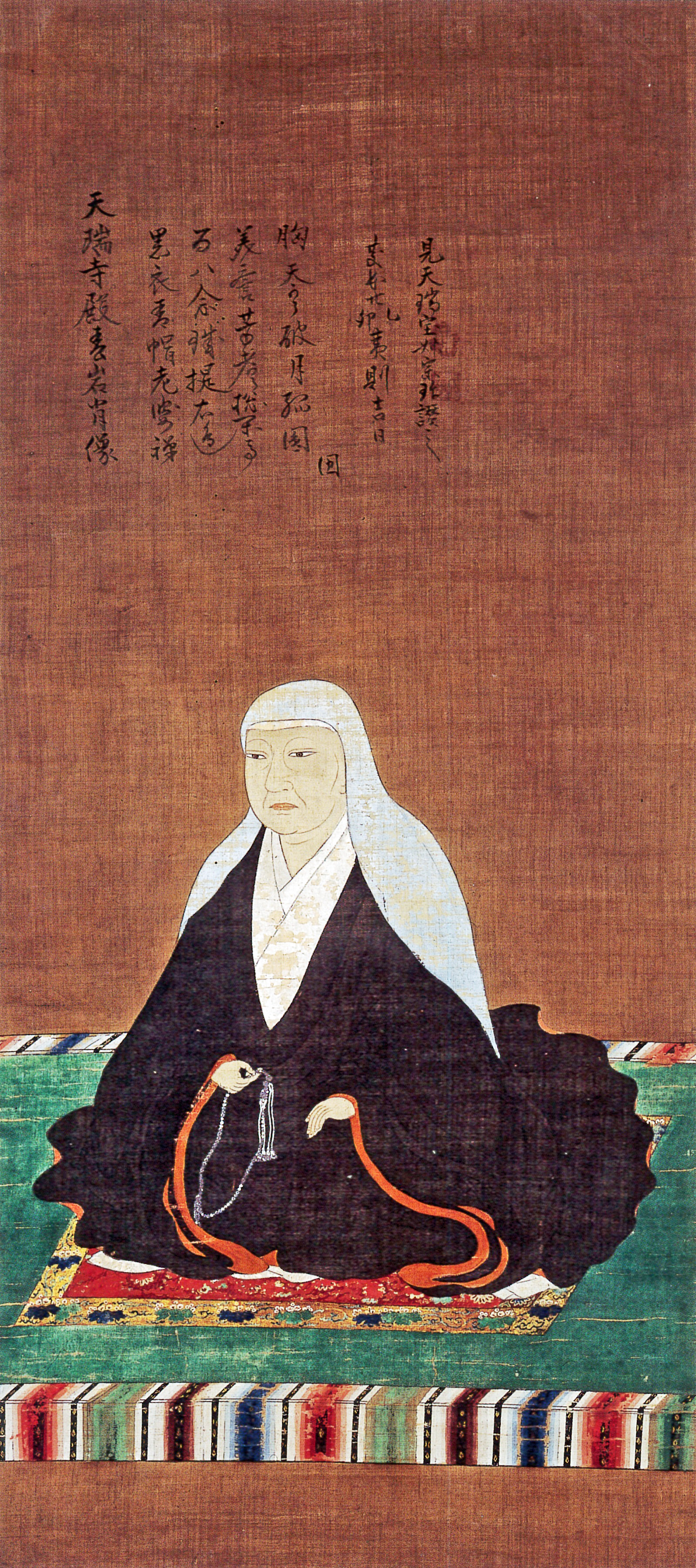 Portrait of Toyotomi_Hideyoshi's mother Naka (aka.Omandokoro or Tenzuiin) .